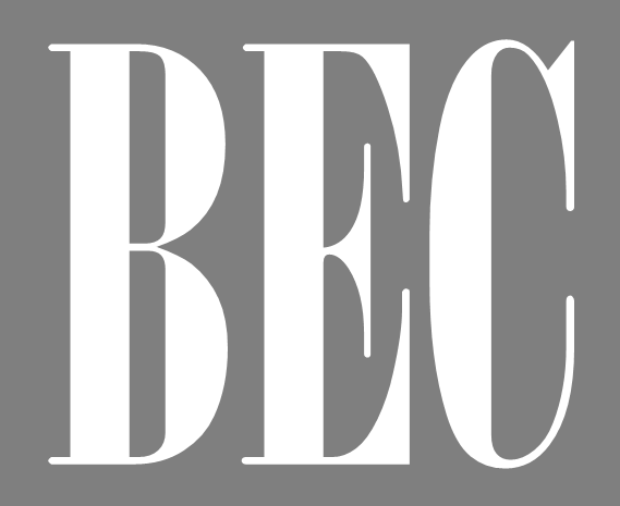 The vectorized logo of the Bolinao Electronics Corporation (1946-1952), the precursor of what is now ABS-CBN Corporation based from [1]